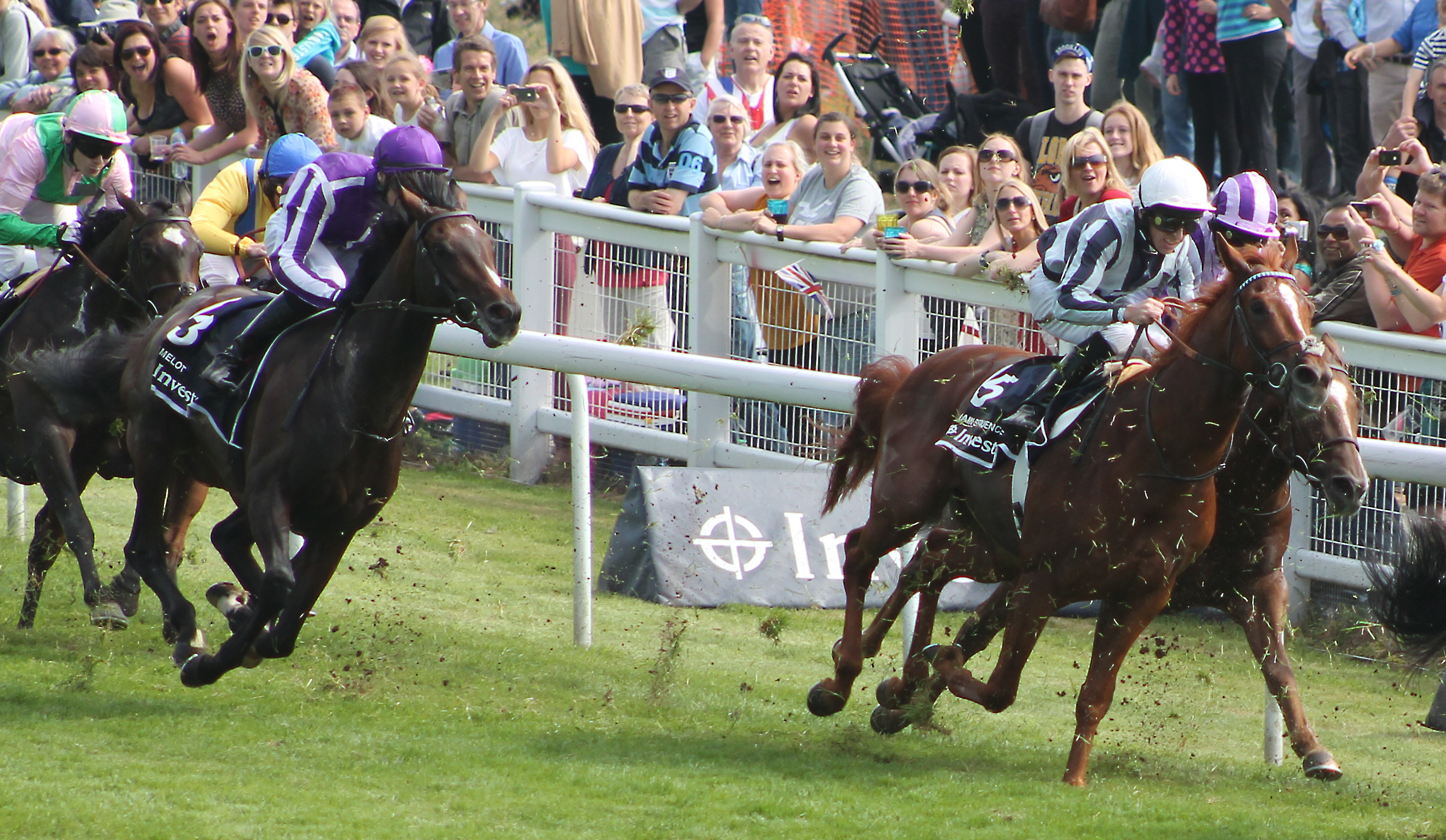 Camelot (#3) in in the purple hat and Main Sequence (#5).